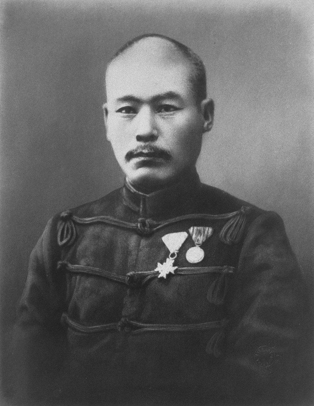 Portrait of Tachibana Shuta (橘周太, 1865 – 1904)